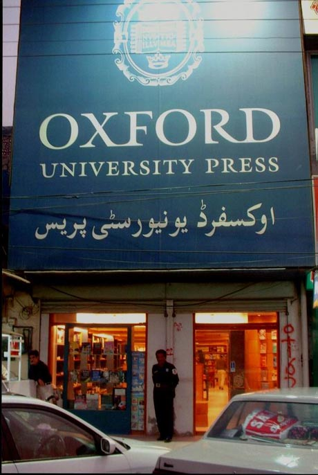 Oxford University Press at D Ground Park, Faisalabad